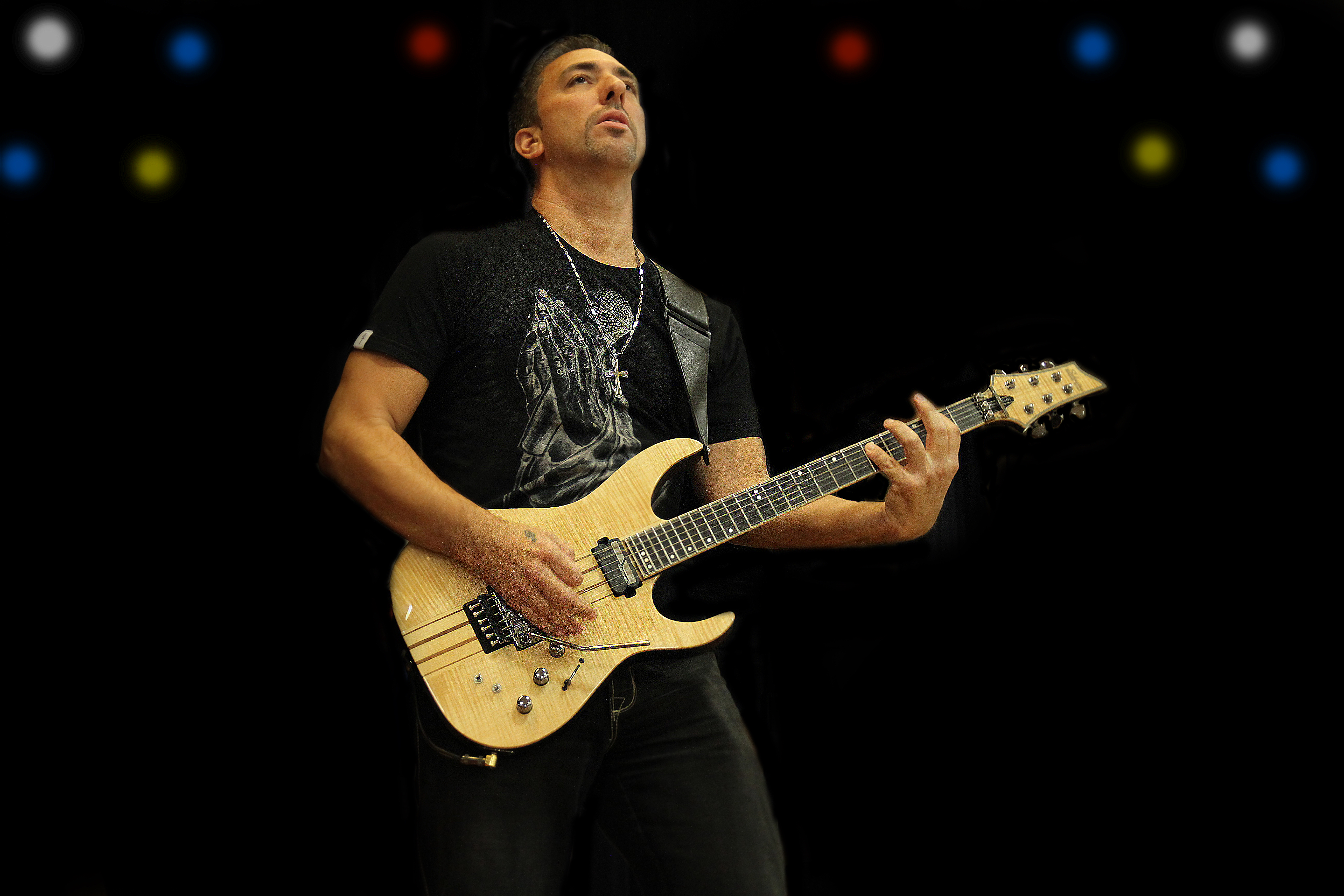 Damon Marks live at BB Kings, NYC